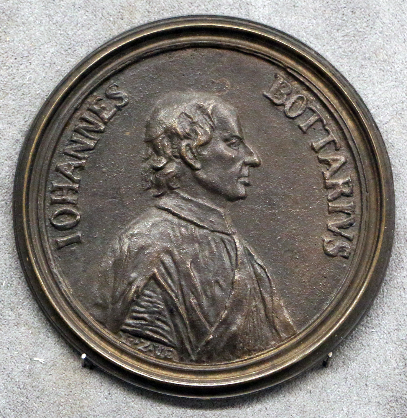 Giovanni Gaetano Bottari (1689-1775). Winckelmann, Firenze e gli Etruschi (2016 exhibition)